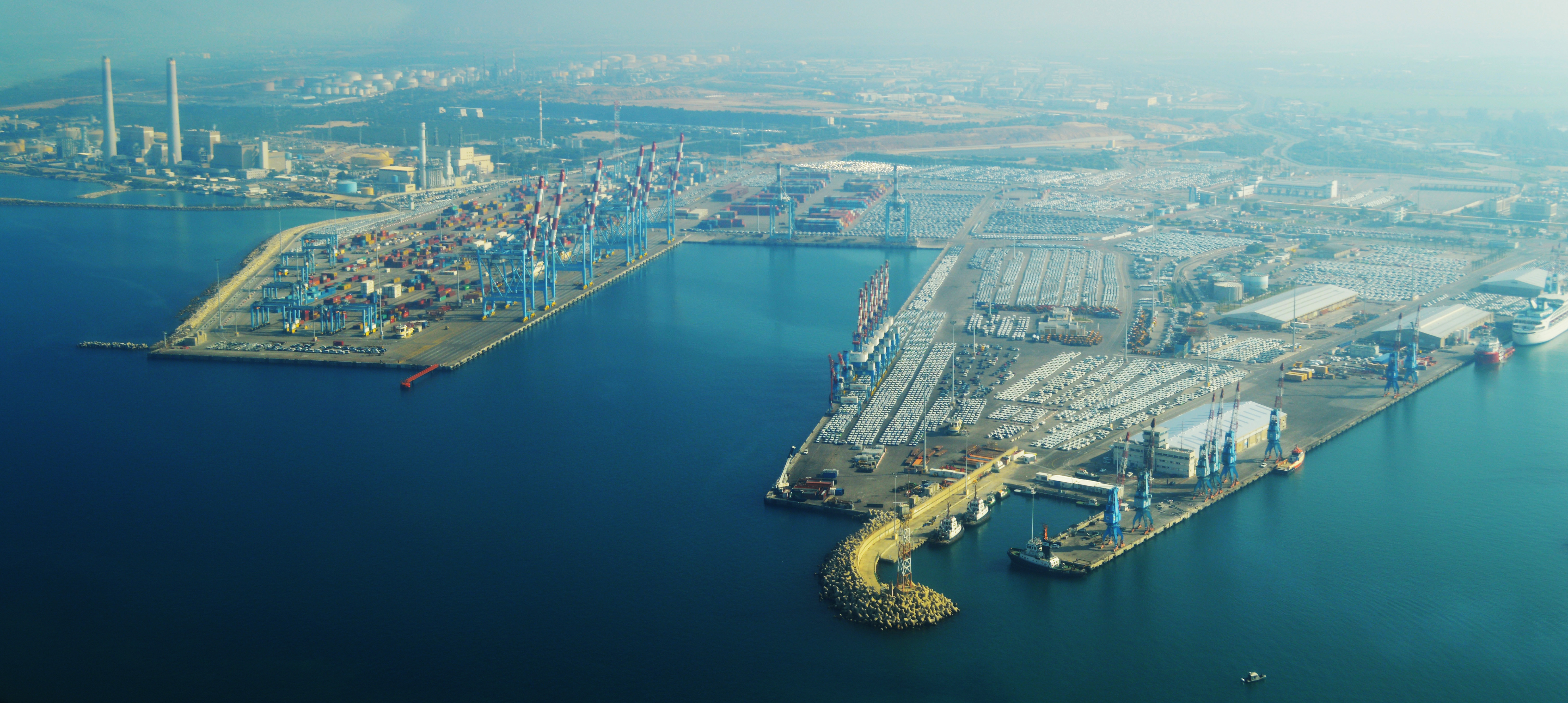 Ashdod Port Aerial View